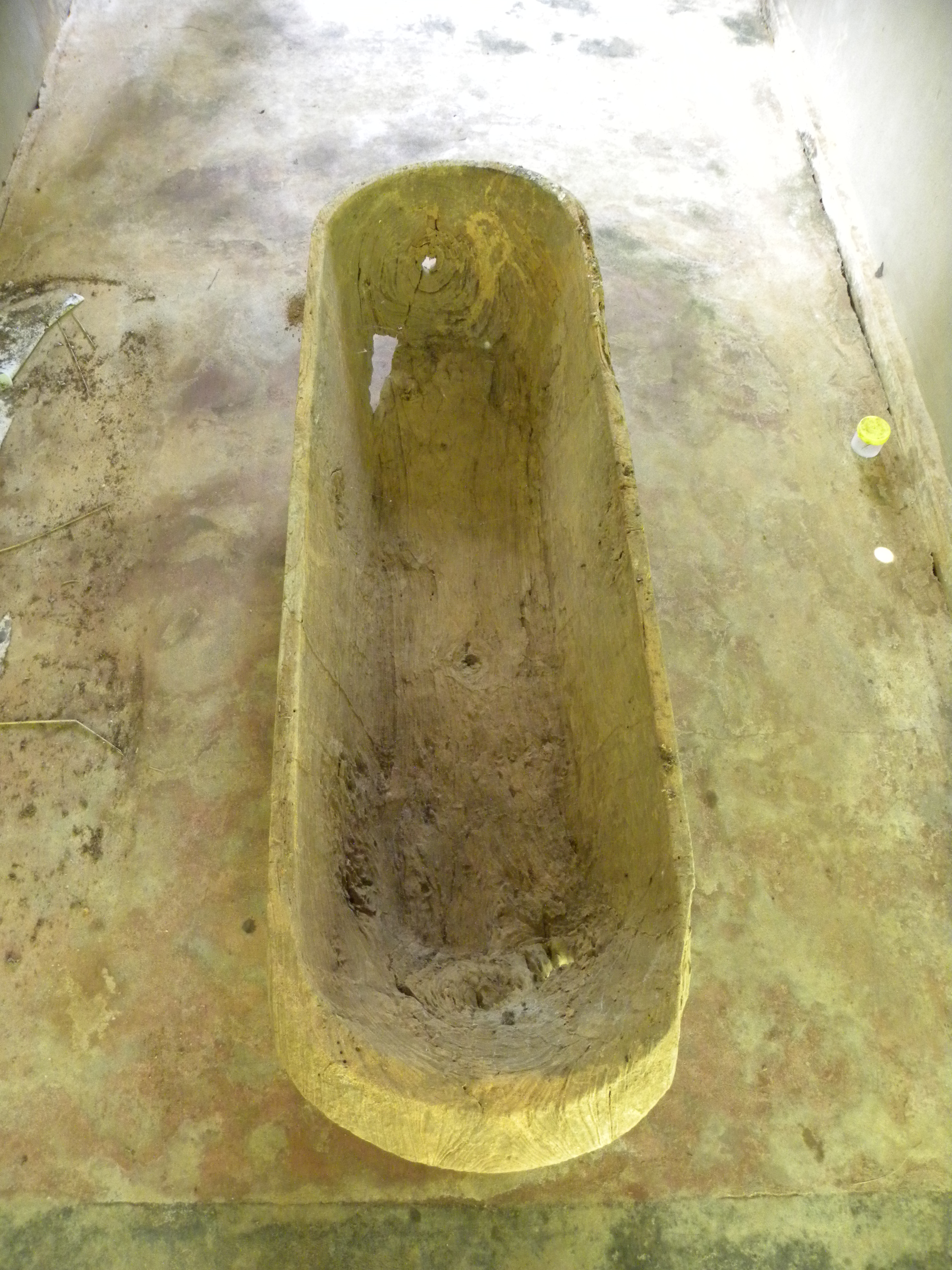 Oil bath tub used in Ayurvedic treatment.